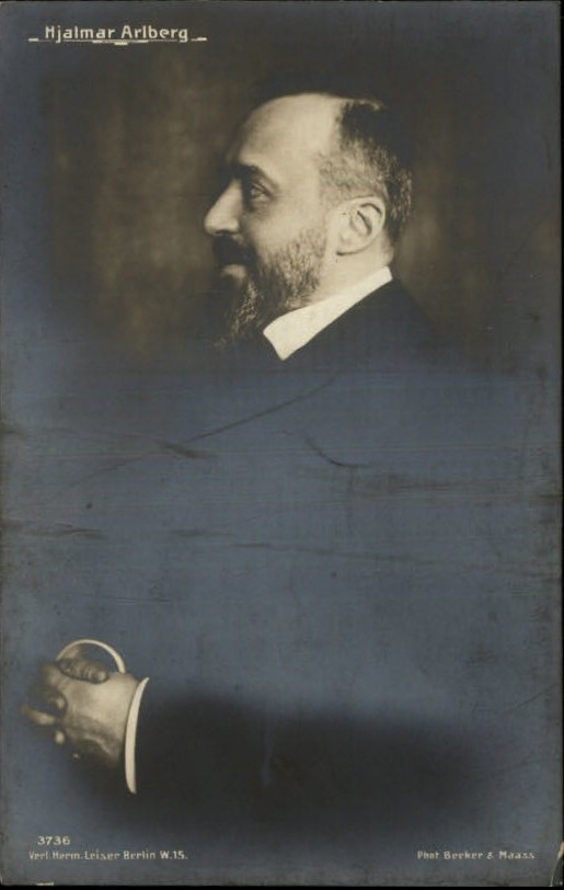 German vocalist, professor, teacher and publisher Hjalmar Arlberg (born 1869)